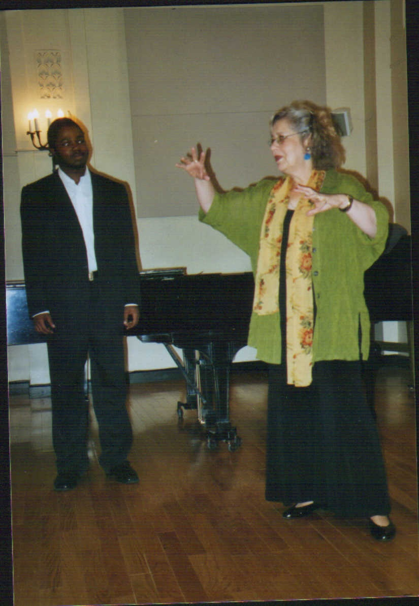 Mira Zakai, Professor of Voice and Alto singer from Israel, at a Master class in New York